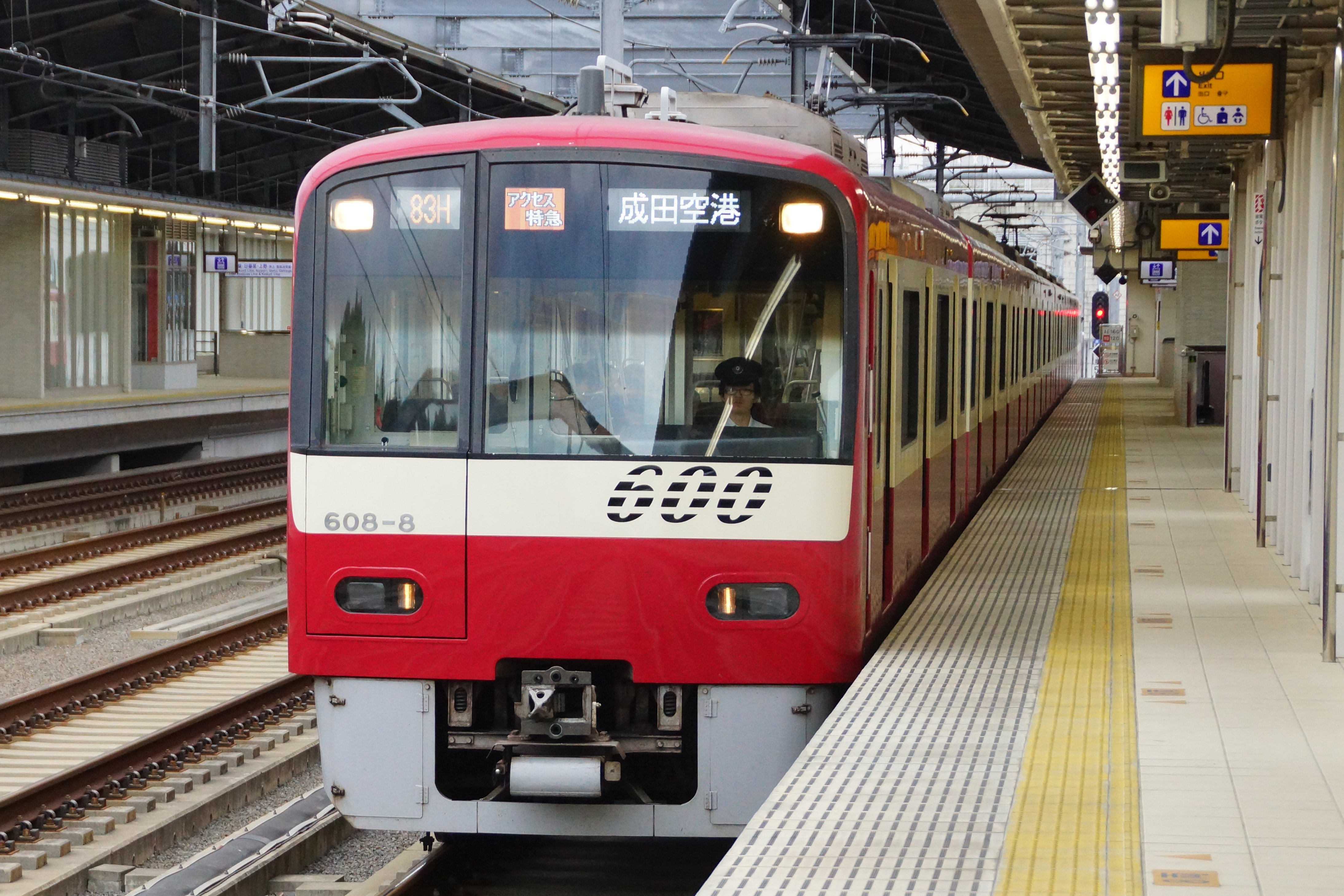 Keikyu 600 series EMU set 608 at Narita-Yukawa station on a down Access express service to Narita Airport